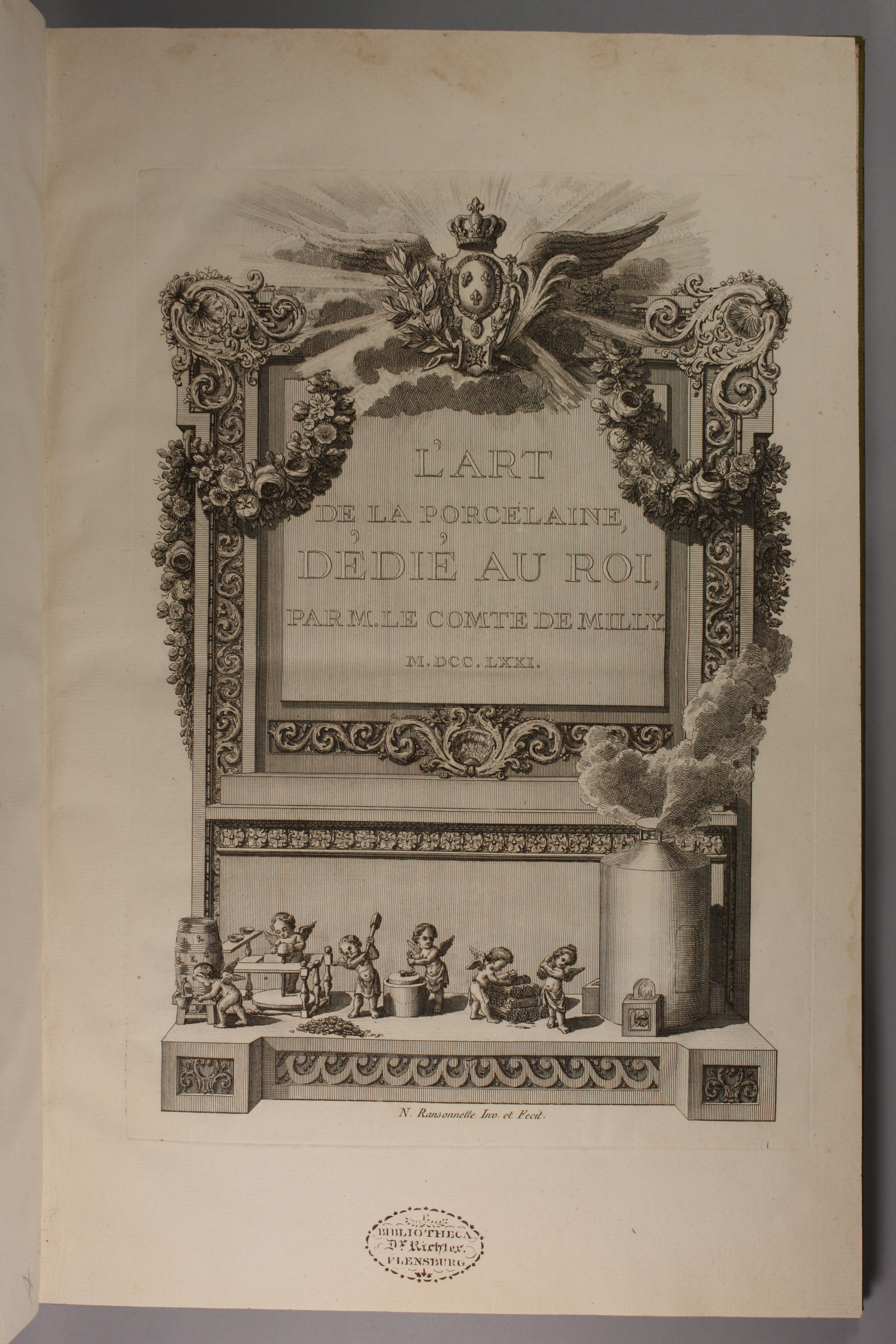 Title page of L'art de la porcelaine / par m. le comte de Milly. Paris : De l'Imprimerie de L.F. Delatour, 1771-1772. This book was published in the Descriptions des arts et métiers faites ou approuvées par messieurs de l’Académie Royale des Sciences, a 113-volume series devoted to handcraft and manufacturing processes. In it the Count de Milly published the secret of hard-paste porcelain, previously a closely guarded secret.